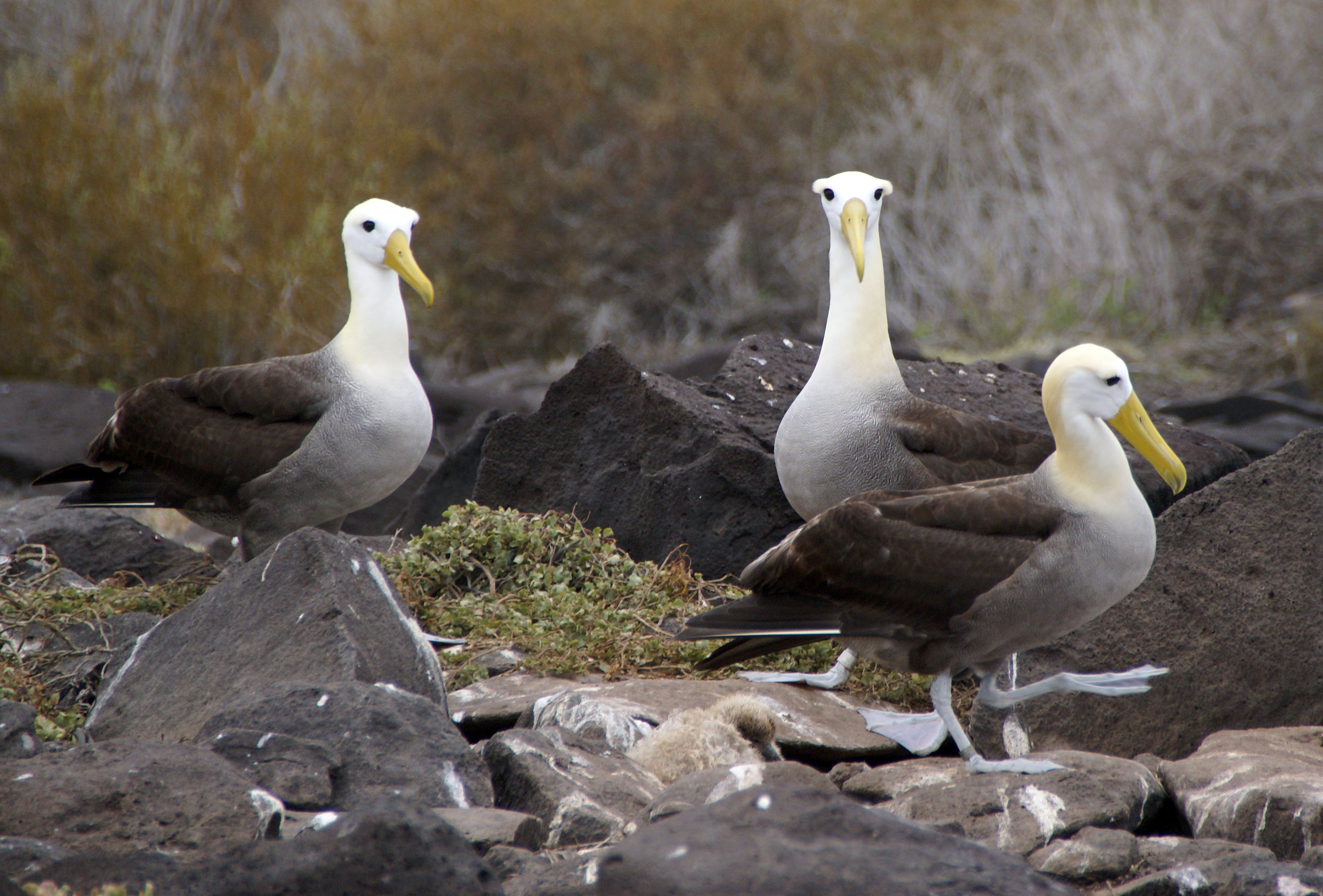 Waved Albatross (Phoebastria irrorata) - also known as Galapagos Albatross. Three birds on Española Island, of the Galápagos Islands